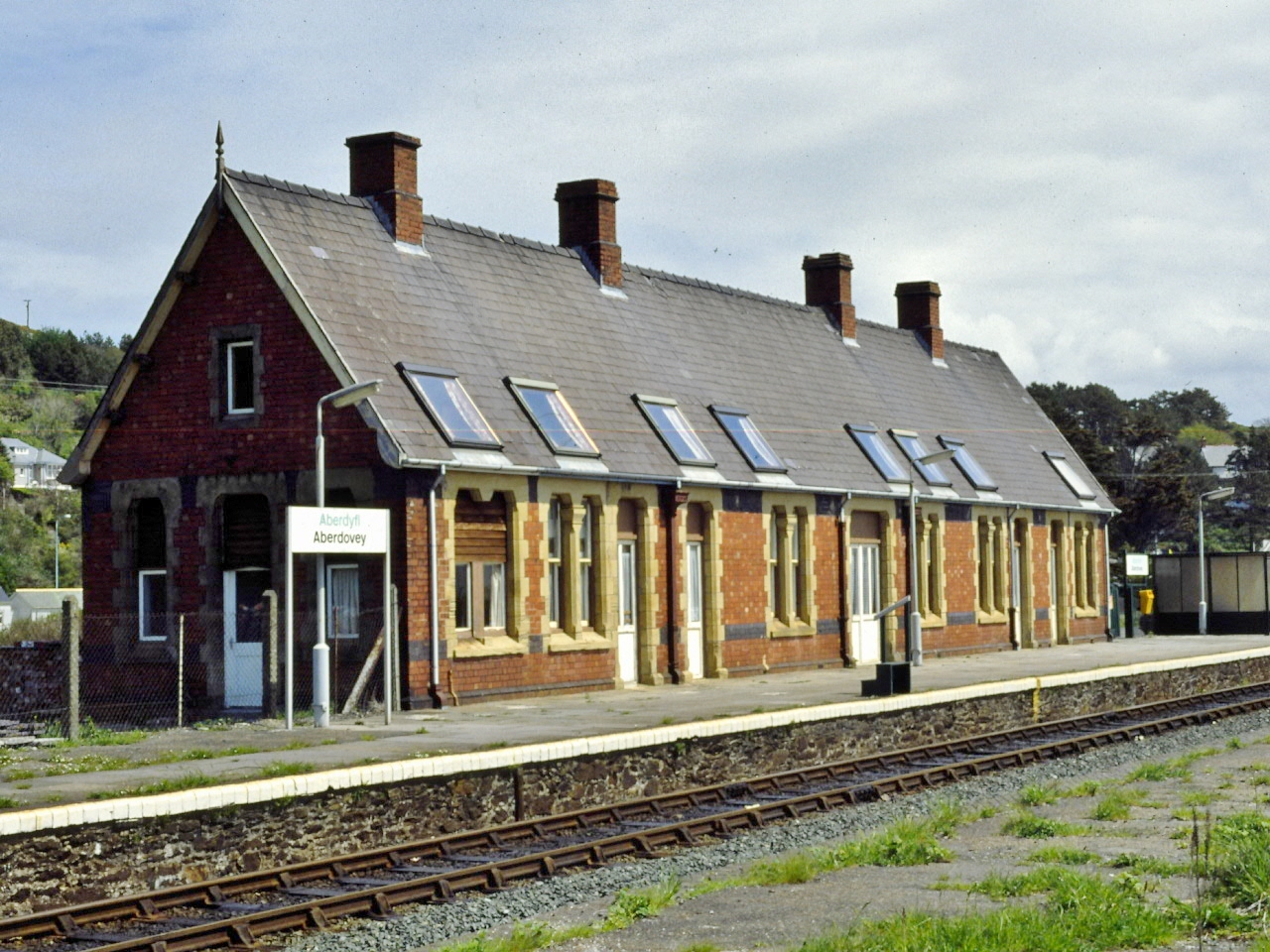 Opened by the Aberystwyth and Welsh Coast Railway, then run by the Cambrian Railway, it became part of the Great Western Railway. The line then passed on to the London Midland Region of British Railways on nationalisation in 1948. When Sectorisation was introduced, the station was served by Regional Railways until the Privatisation of British Railways. Until the 1960s there was a summer service between London Paddington and Pwllheli, via Birmingham Snow Hill, Shrewsbury and Machynlleth. Originally a two-platform station with a short branch line (only a few hundred yards long) to Aberdovey Harbour, the station is now a single-platform, unstaffed halt. Like many stations in Wales and the North of England, the station was constructed before standard platform heights were established and is very low. Aberdovey was the third UK railway station to receive a specially designed raised section - a Harrington Hump - to improve accessibility for passengers